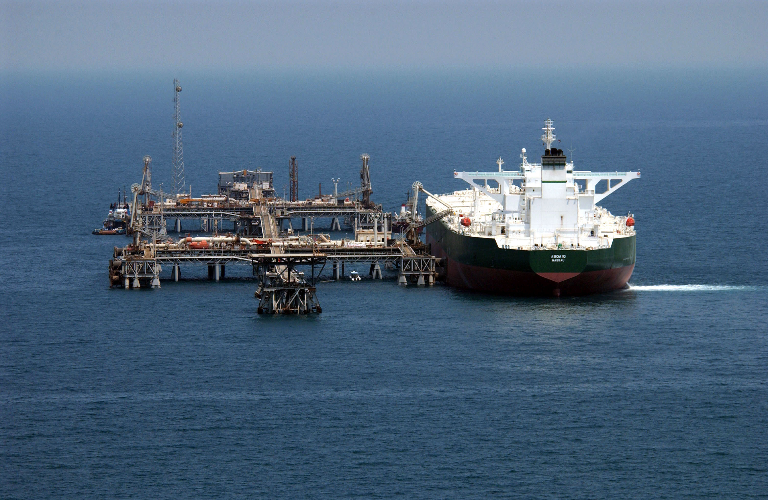 Central Command Area of Responsibility (Jun. 29, 2003) -- Commercial oil tanker AbQaiq readies itself to receive oil at Mīnā' al-Bakr Oil Terminal (MABOT), an off shore Iraqi oil installation. The supertanker AbQaiq is the first commercial vessel to receive exported Iraqi oil as an off shore customer since 1991, outside of the United Nations' Oil-for-Food programme. AbQaiq is scheduled to take on an estimated 2 million barrels of crude oil. U.S. Navy and coalition forces are helping to provide security, enforcing an exclusionary perimeter around the terminal. U.S. Navy photo by Photographer's Mate 2nd Class Andrew M. Meyers. (RELEASED)